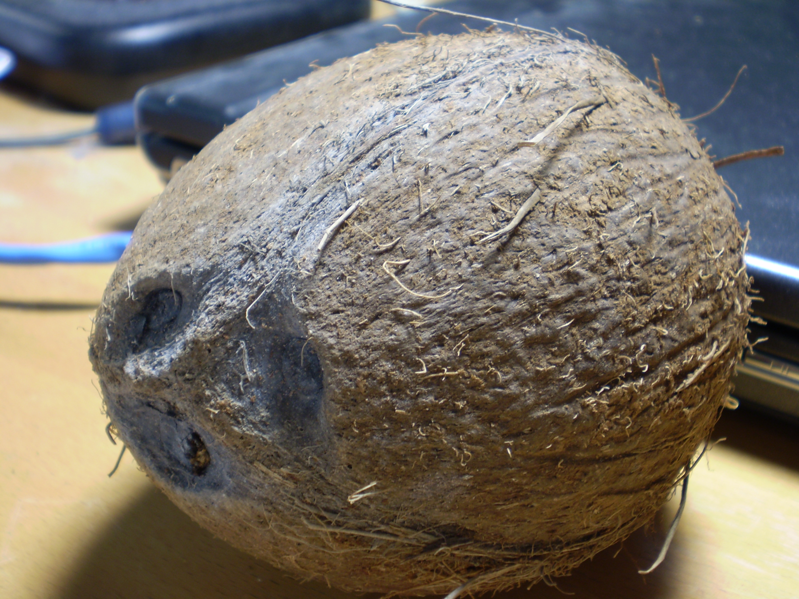 Coconut from market